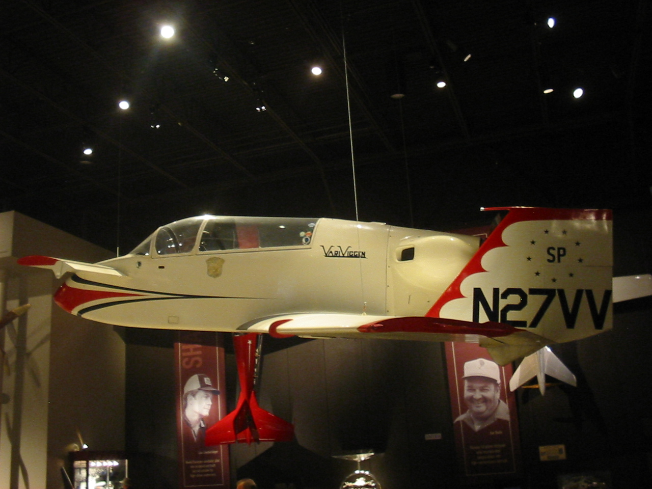 Rutan VariViggen at Oshkosh